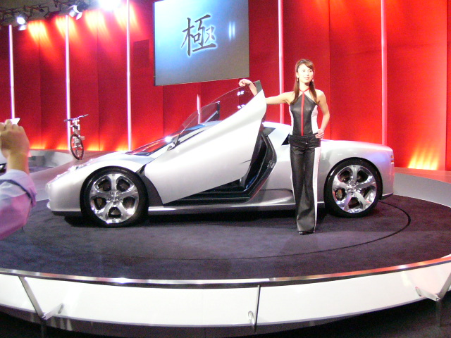 HONDA HSC at Tokyo Motor Show 2003